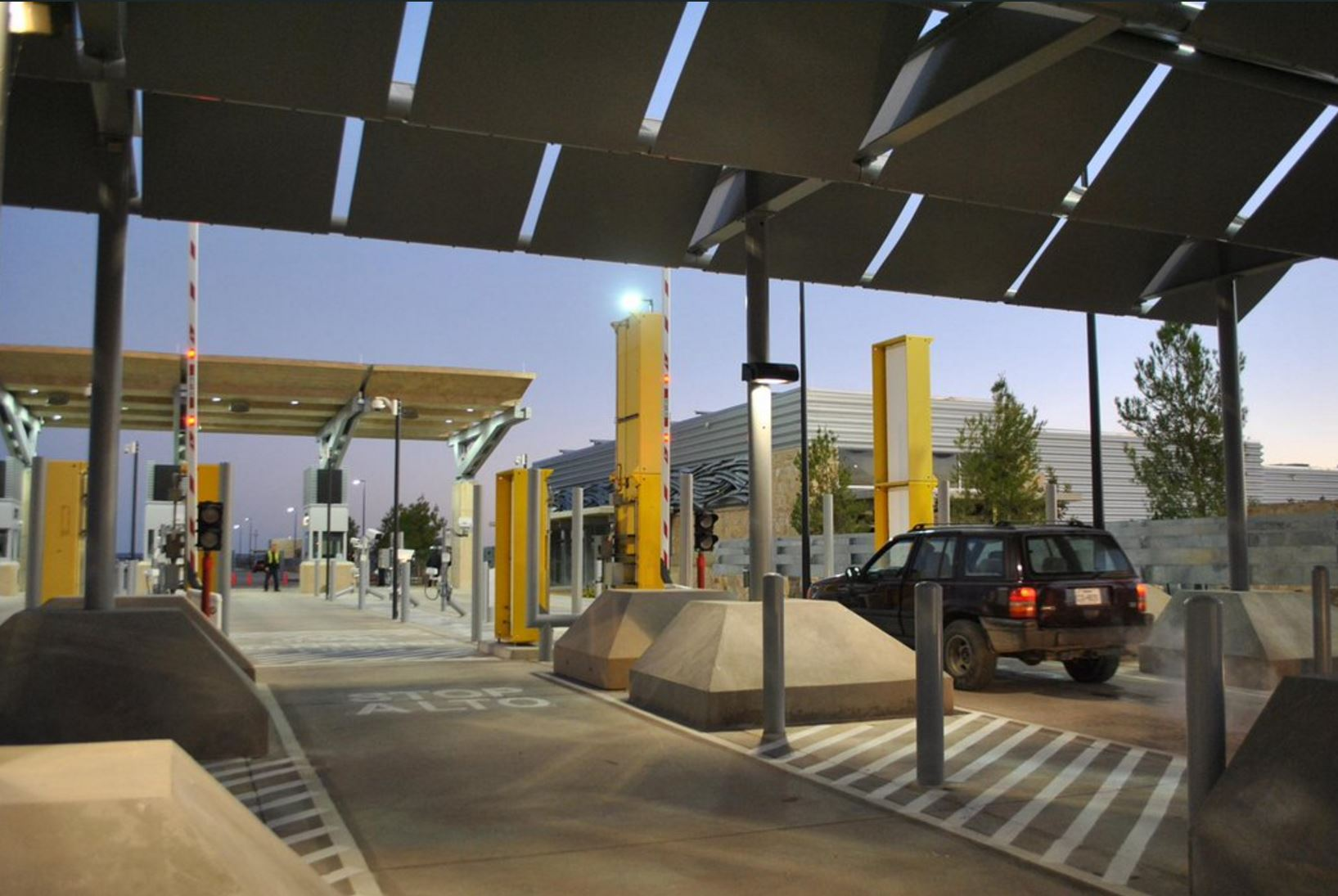 US Border Inspection Station at Tornillo, Texas